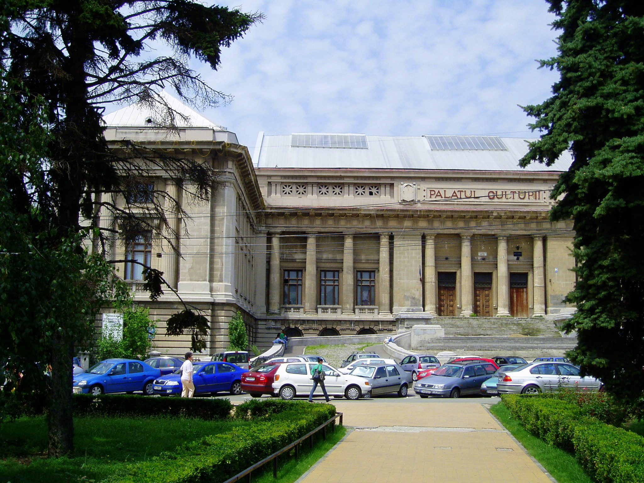 The Palace of Justice in Ploieşti, transformed into a Palace of Culture by the communists. The Court of Appeals for the County is still housed. Architects: T. Toma Socolescu and E. Doneaud. This building is classified historical monument. It is located Bulevardul Republicii, Ploieşti, Judetul Prahova, Romania. We are the only heirs and descendants of Toma T. Socolescu (died in 1960 in Bucharest) and therefore owner of all his intellectual rights.